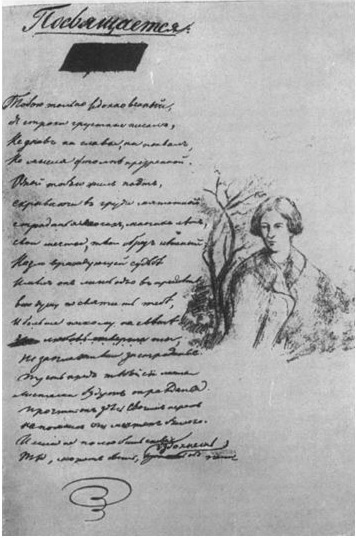 The title page of Lermontov's Menschen und Leidenschaften drama